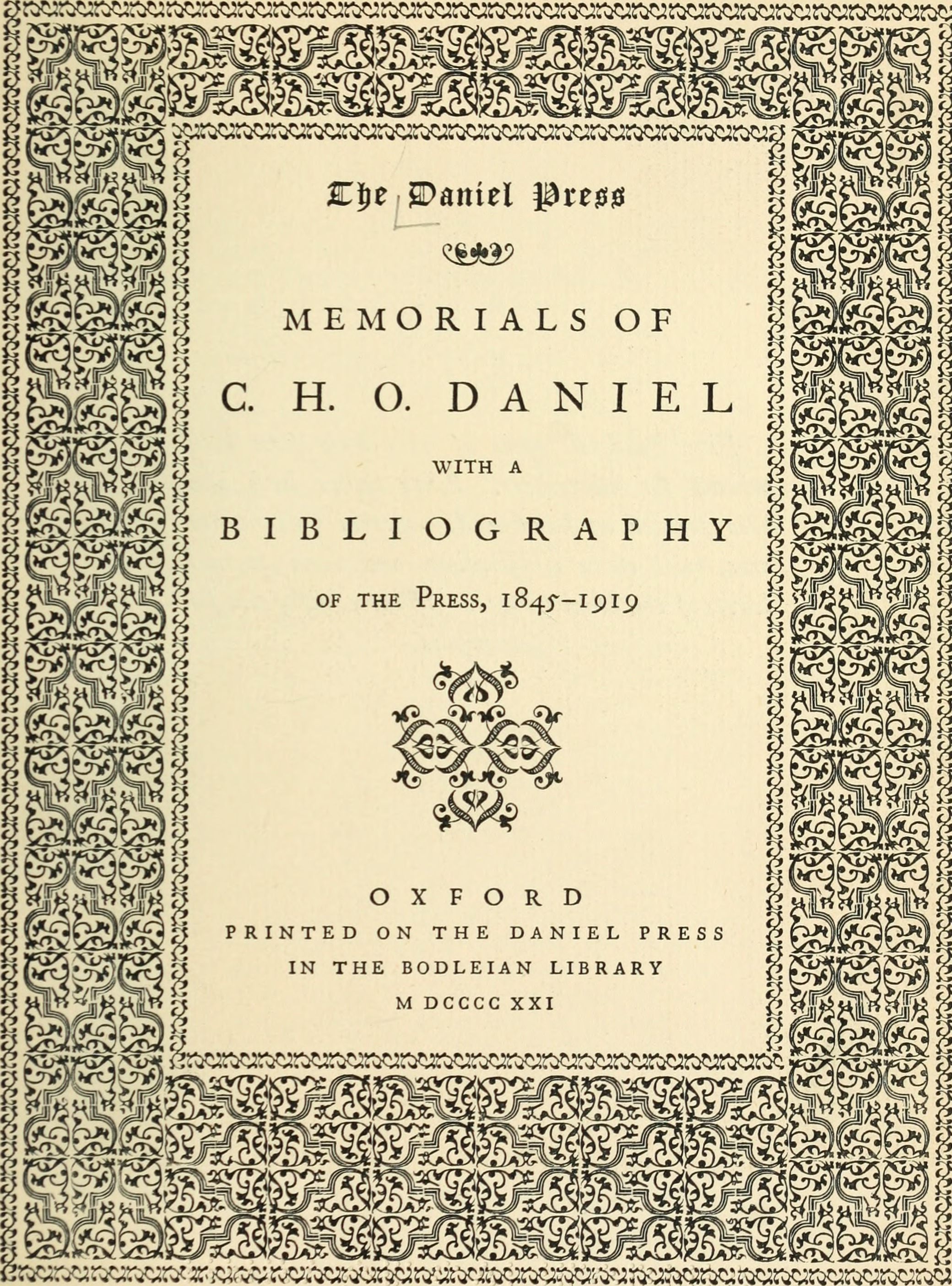 Title: The Daniel press. Memorials of C. H. O. Daniel, with a bibliography of the press, 1845-1919 Year: 1921 (1920s) Authors: Madan, Falconer, 1851-1935 Subjects: Daniel, Charles Henry Olive, 1836-1919 Daniel Press Publisher: Oxford : Printed on the Daniel press in the Bodleian library Text Appearing Before Image: DR. DANIEL, 1904 From the unfinished portrait by C. Furse in iVorcester College(v. O ::i^ri^t:i^:ti^ri!^ri^;^:ti?i:iti^tti^ri?^tti^^ Text Appearing After Image: Fiiie hundred copies of this hook have beenprinted for subscribers. Sixty copies have alsobeen printed on hand-made paper in full quartosizey with extra illustrations and some originalleaves of the Daniel Press. Of these, fifty are forsubscribers. ^■^ \^ Uv.-. \ T \ FOREWORD THE present volume, The Daniel Press, is designed asa tribute from a few of his friends to the memory ofCharles Henry Olive Daniel, late Provost of Worcester College,Oxford. When the book was first planned it seemed thata Wreath * or Garland on a model of that which Dr. Danielhimself printed in very different circumstances, a collection ofpoems and appreciations, like some old-fashioned collectionof Elegies Sacred to the Memory of a Friend, would bea fitting memorial of a scholar, a lover of books and a printer.The design, however, became rather more ambitious when thePresident of Magdalen undertook to write a Memoir ofDr. Daniel, and Mr. Falconer Madan offered to compile aBibliography of the Daniel Press, and p